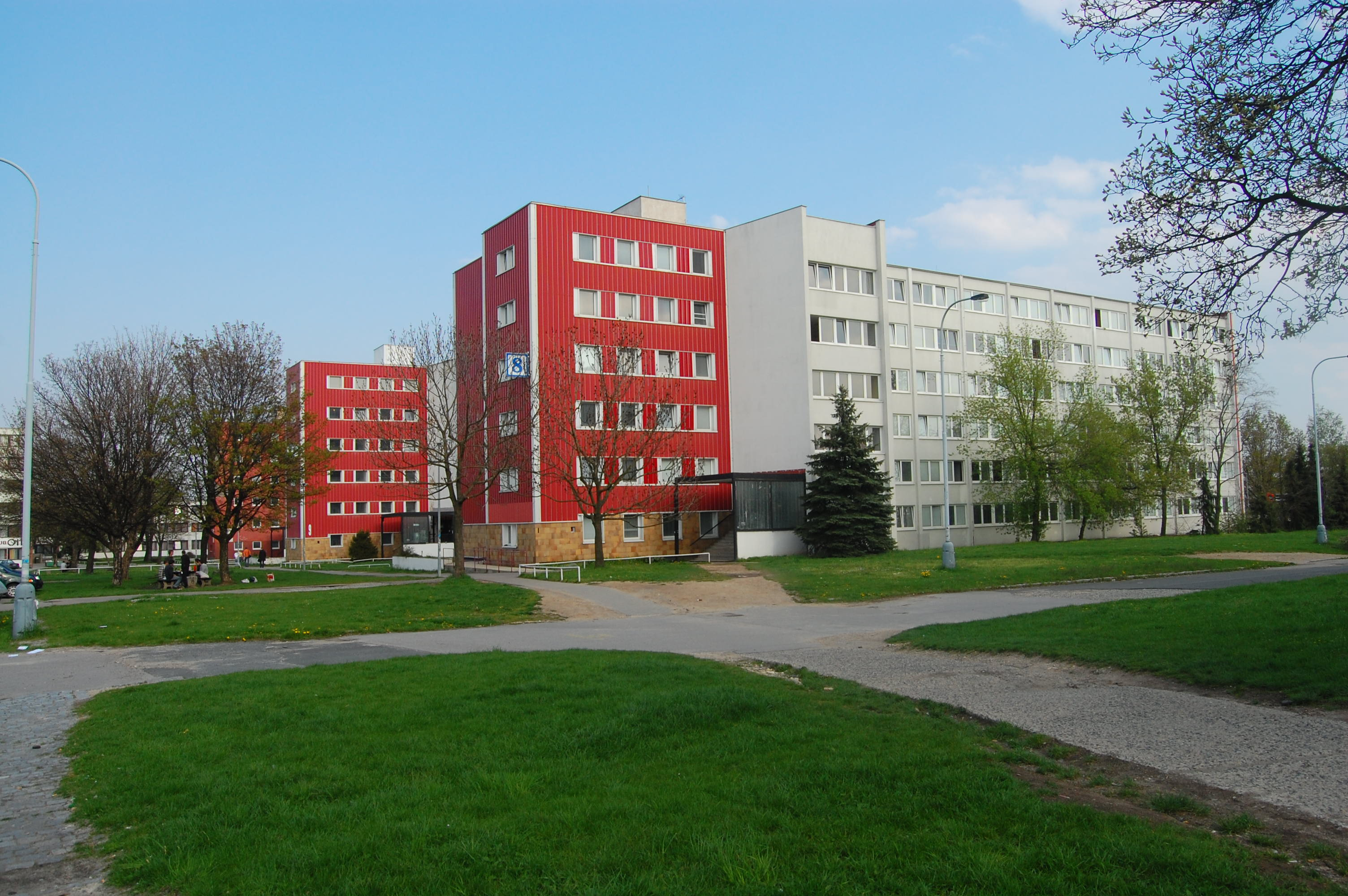 Strahov student dormitory, Prague